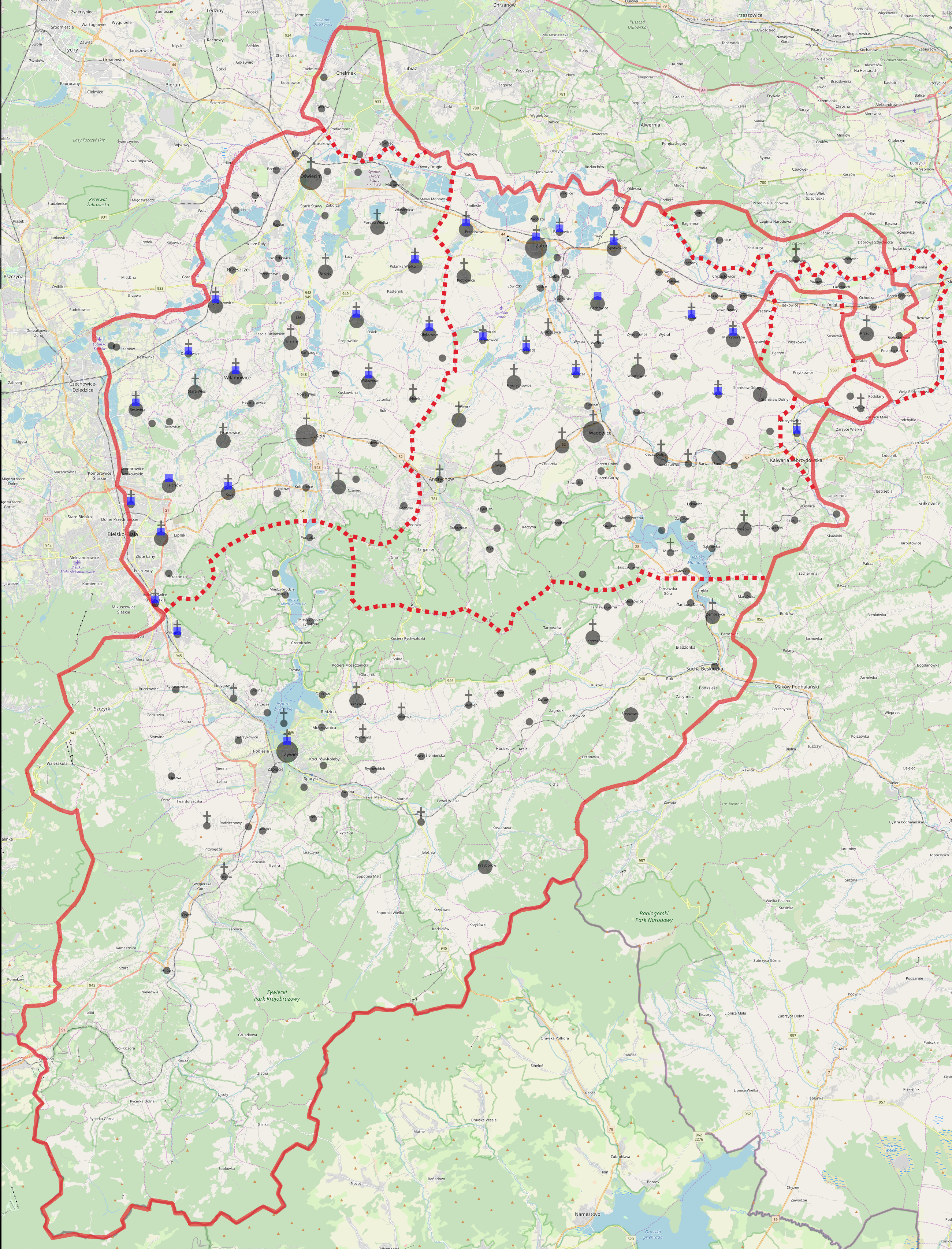 Silesian County at the end of the 16th century red line - County border; red dotted line- borders of the duchy of Oświęcim and Zator in the second half of the 15th century; black dots - towns and villages; crosses - parishes; blue squares - protestant communities